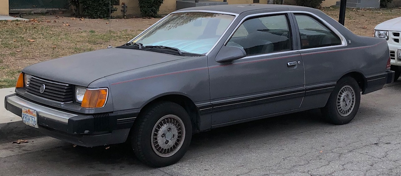 Mercury topaz 2-door coupe, the near identical twin of the Ford Tempo